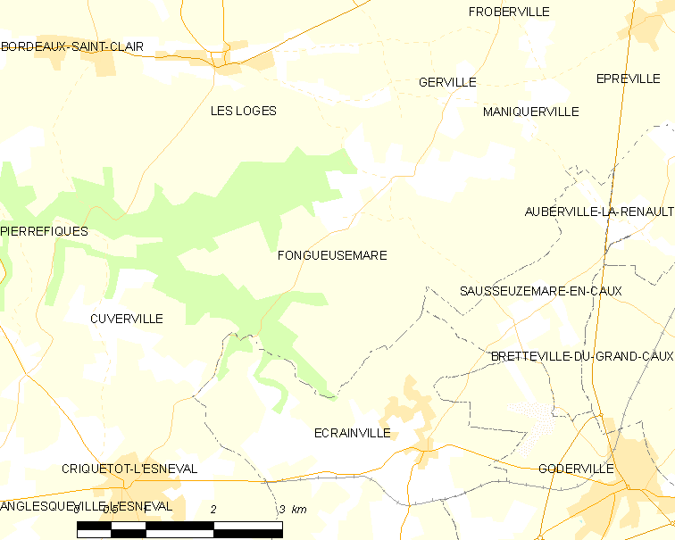 Map of French municipality Fongueusemare